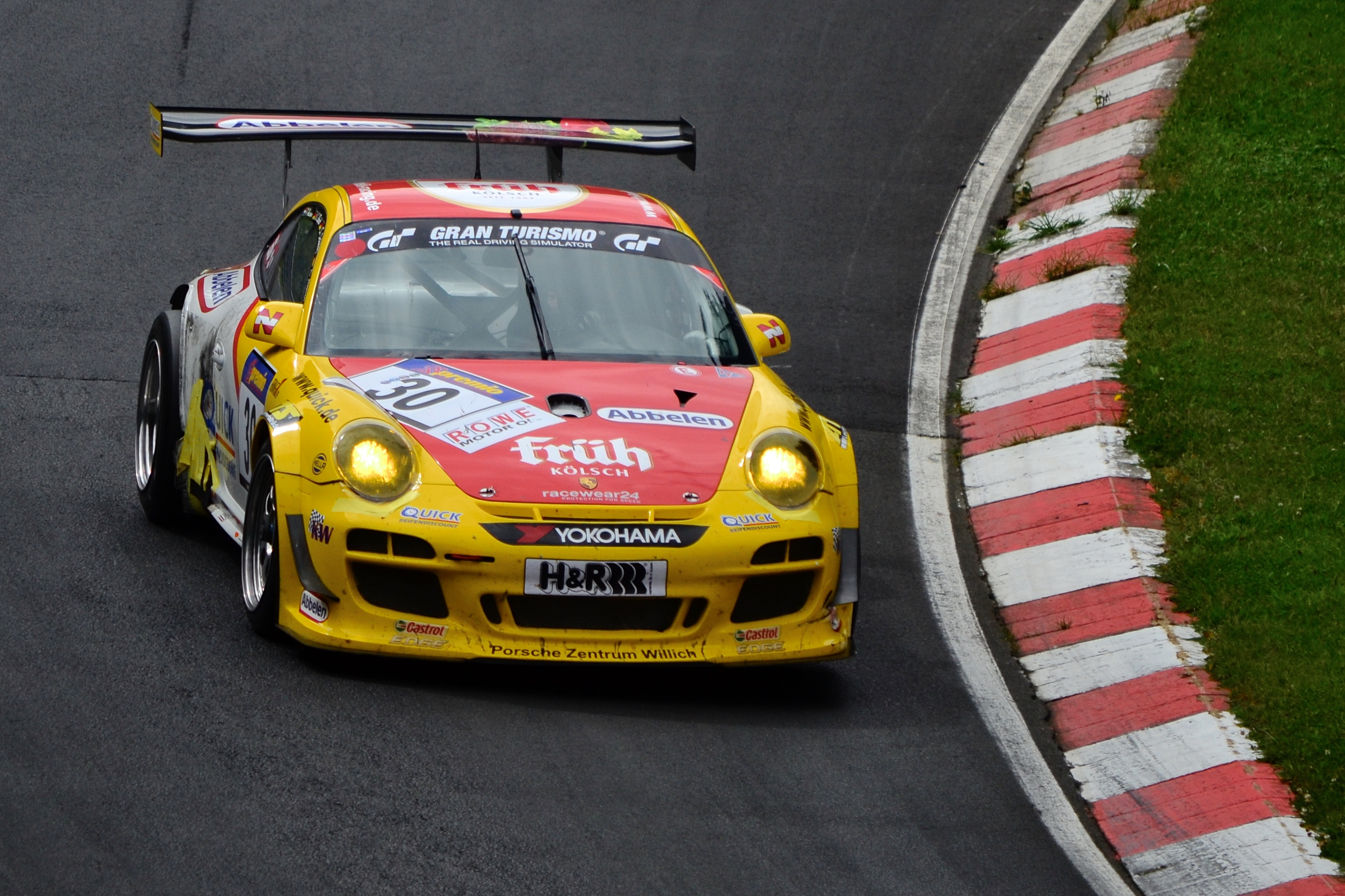 Photo taken during the "6h ADAC Ruhr-Pokal-Rennen" on the Nürburgring Nordschleife